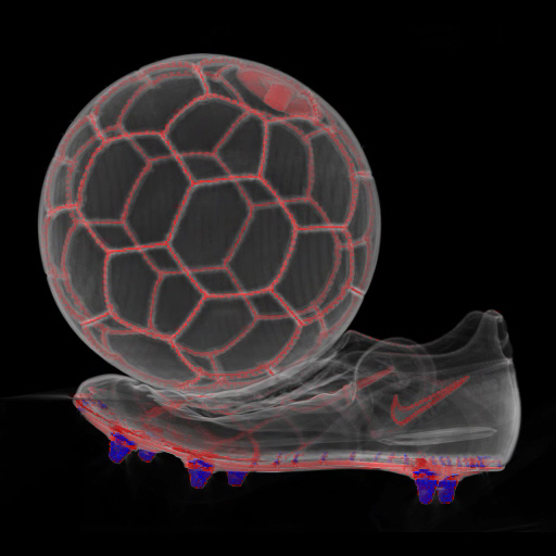 High resolution 3D reconstruction from computed tomography images of a soccer ball and a shoe